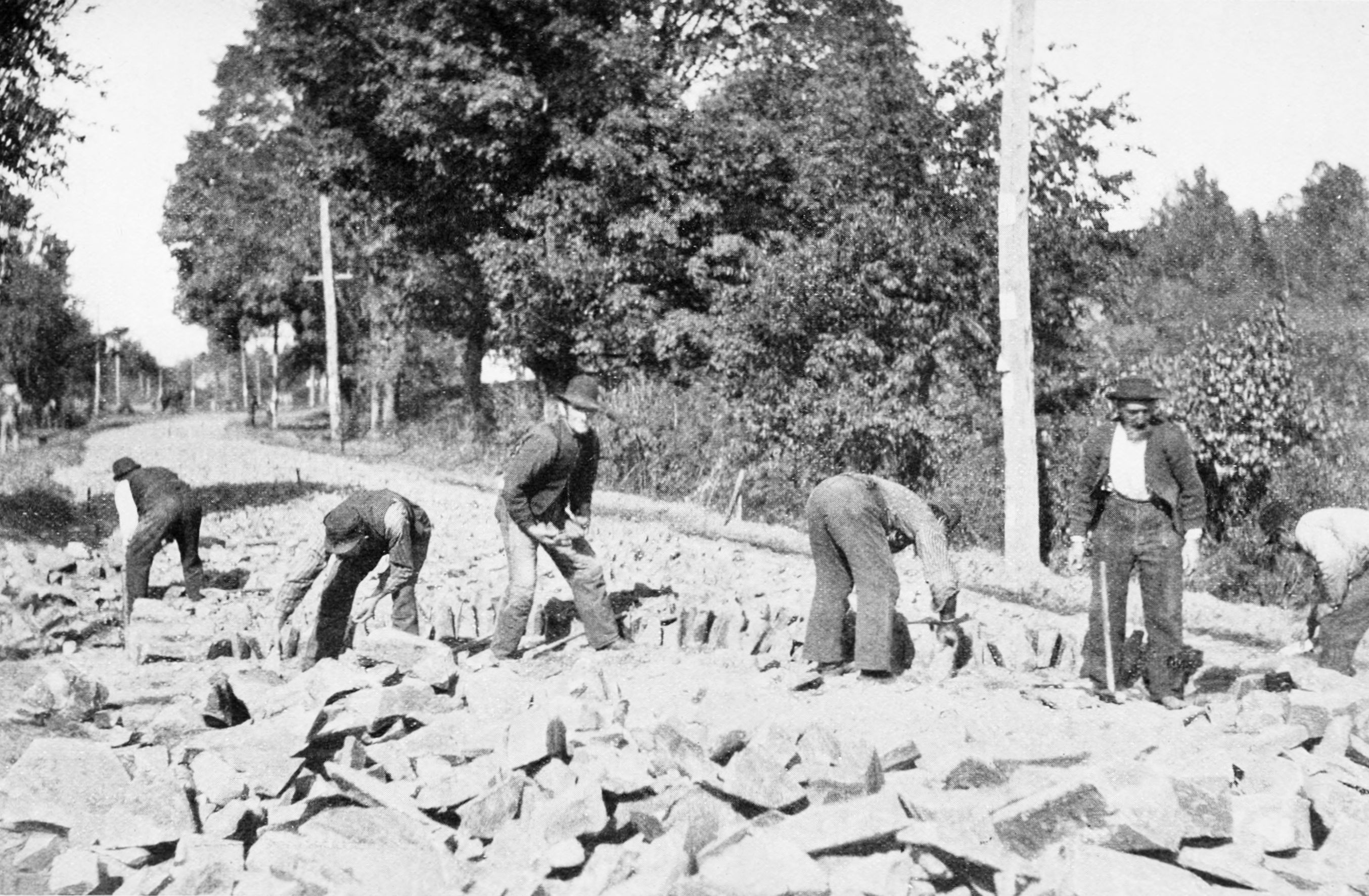 Laying of Telford foundation for state highway at Westfield Mass. 1886